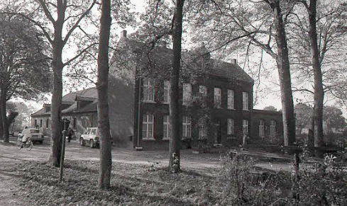 Snelle Sprong